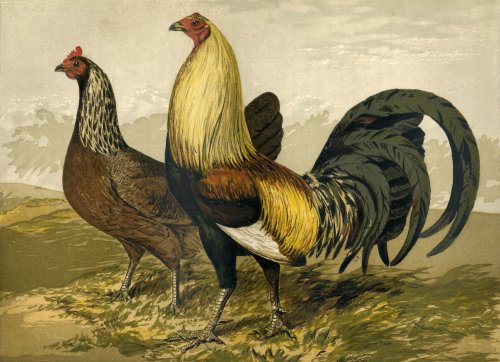 Poultry, Drawing from Harrison Weir, 1903